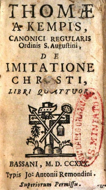 Thomas of Kempis (1379-1471) Imitation of Christ